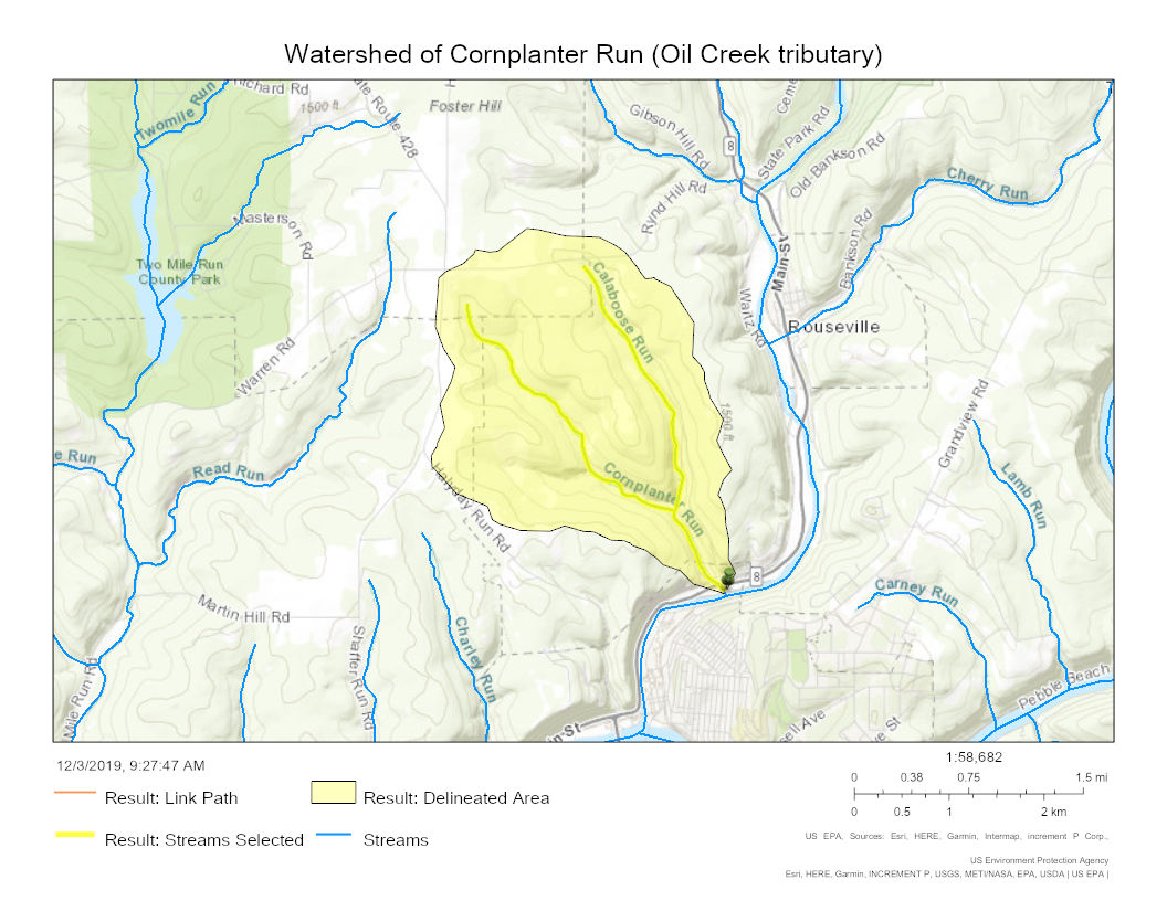 Map of the watershed of Cornplanter Run (Oil Creek tributary) in Venango County, Pennsylvania.